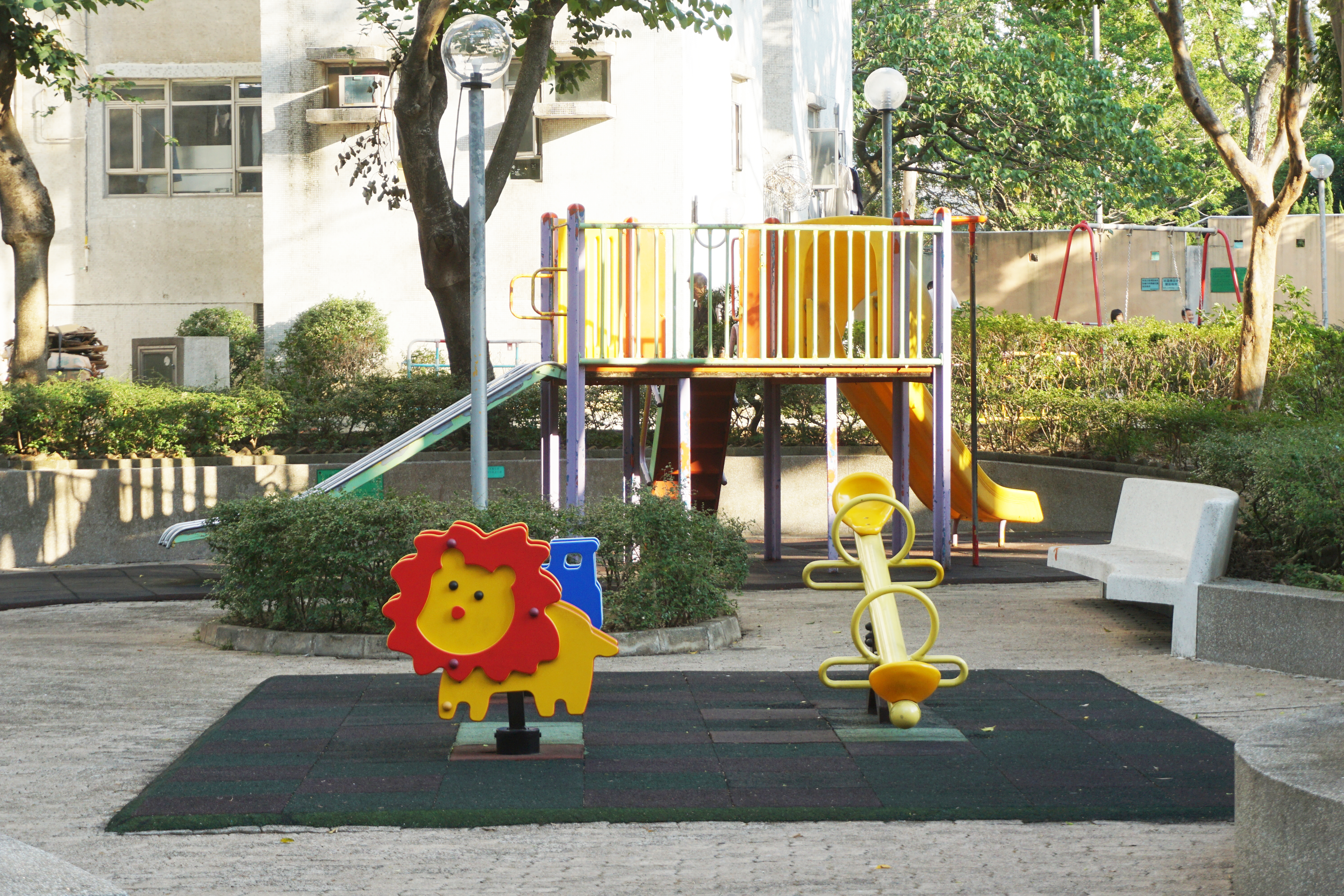 Tsui Lai Garden in Sheung Shui, Hong Kong.